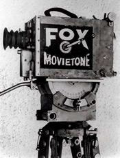 The Fox Mo folm vietone